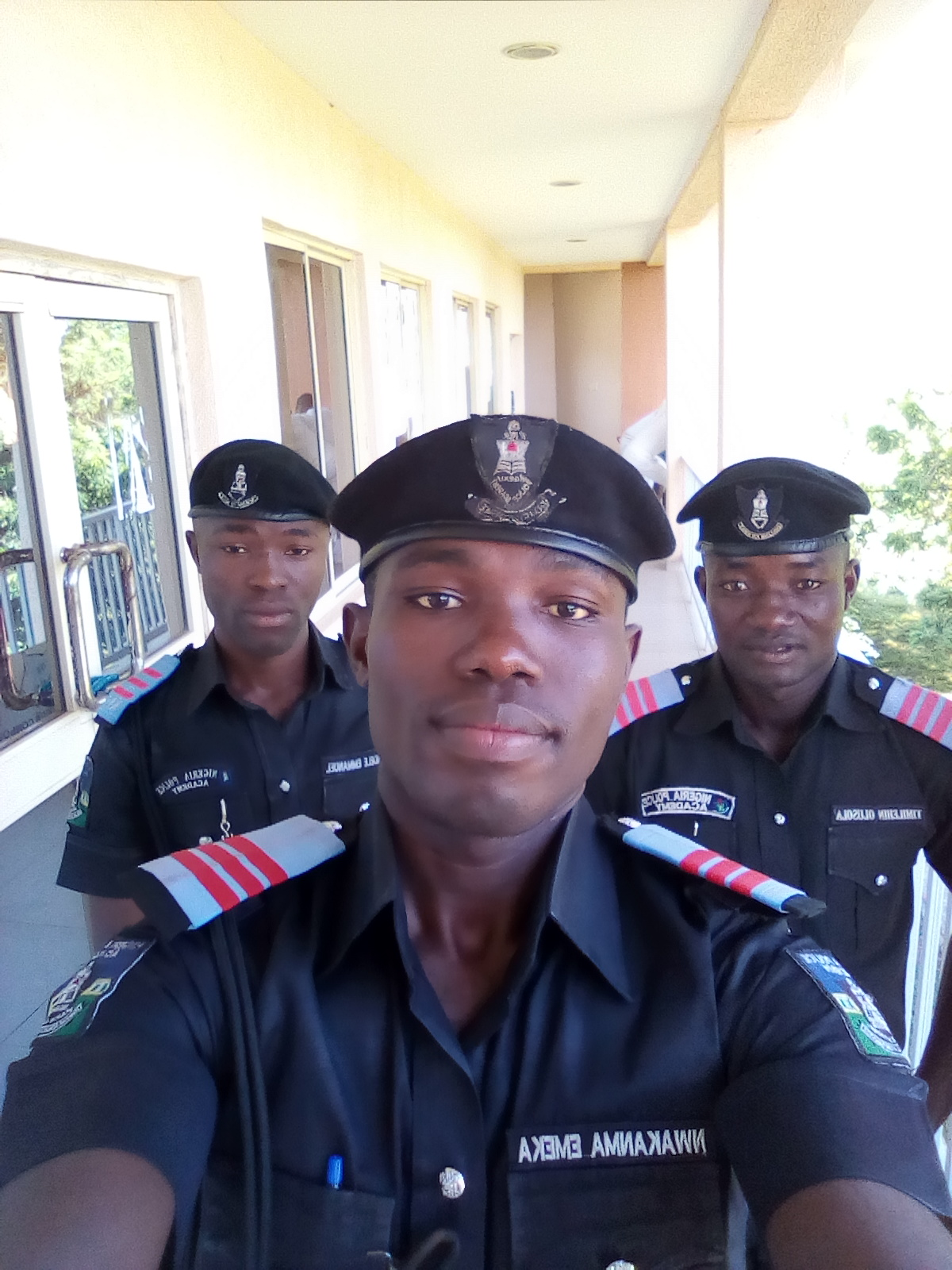 Gallant SUPOLS This is an image of "African people at work" from Nigeria